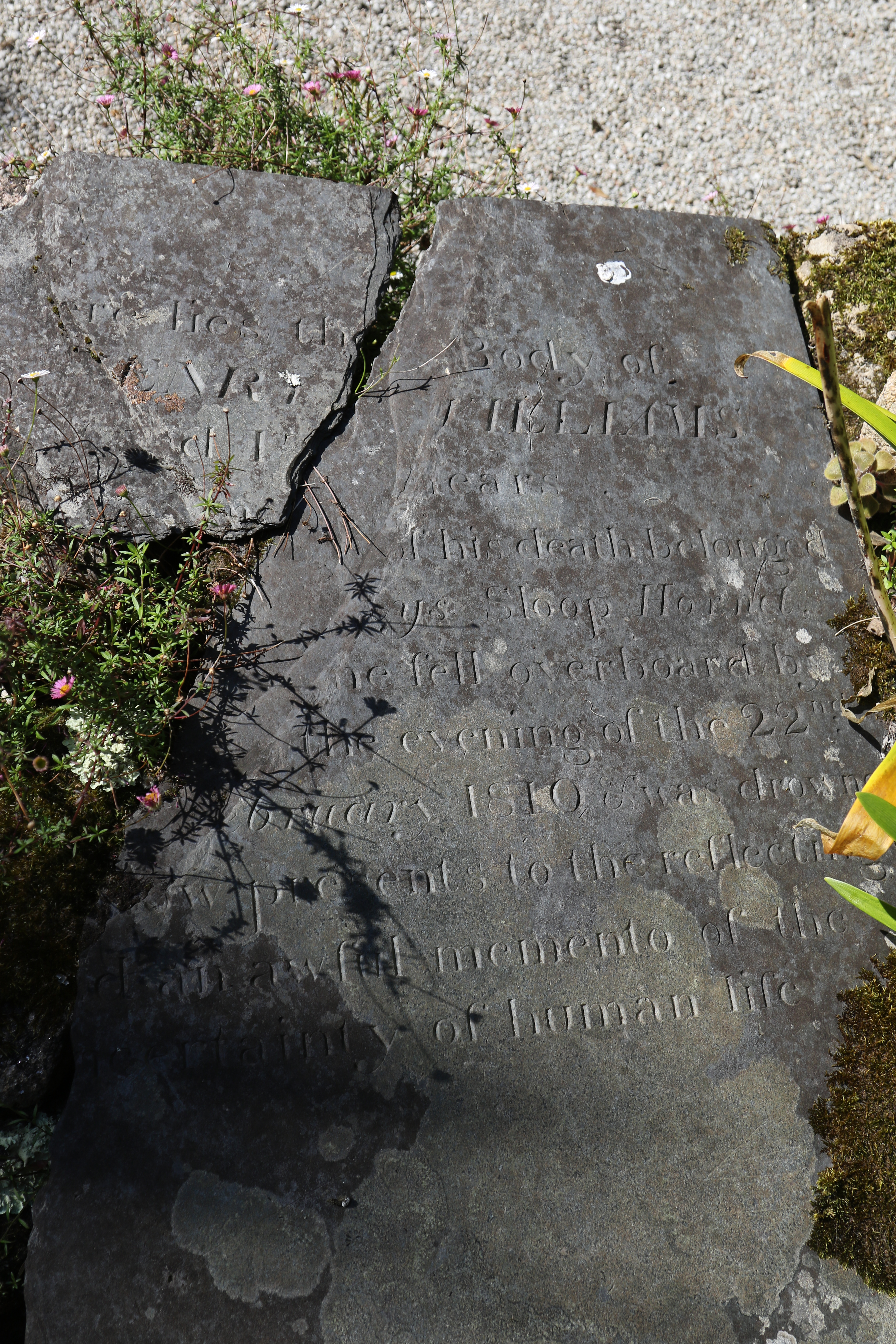 Henry Williams aged 17 brother of Lieutenant Charles Williams, fell overboard from the HM ship Hornet on 22 February 1810 and was drowned